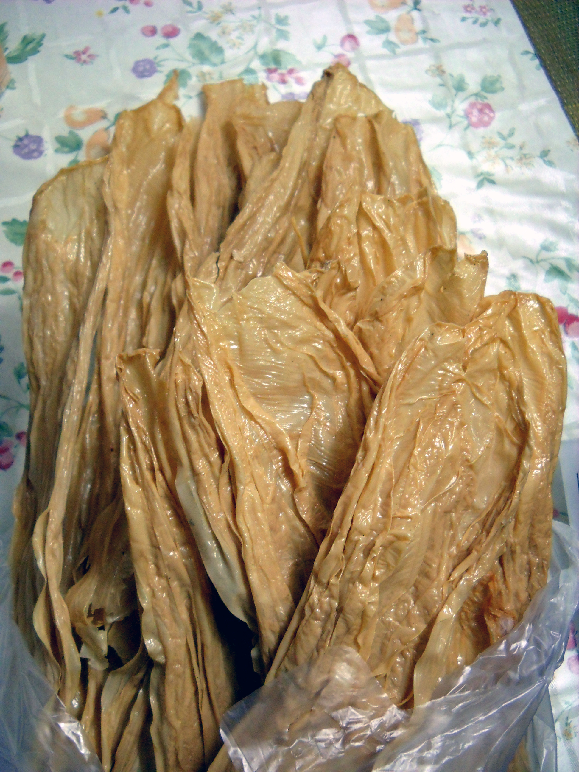 Fucuk, dried beancurd stick from Bangka.